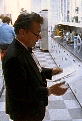 A butler in the White House Butlers Pantry in 2002.